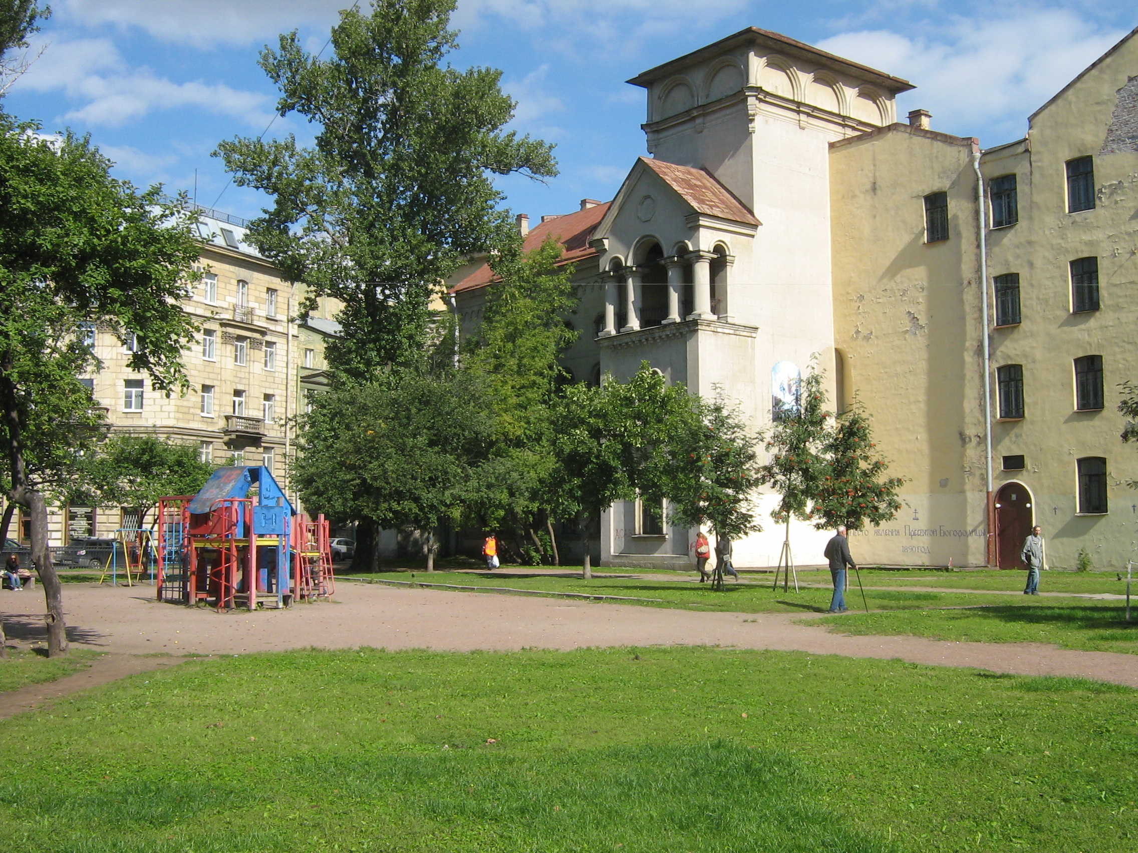 Saint Petersburg (Russia), Petrogradsky District.